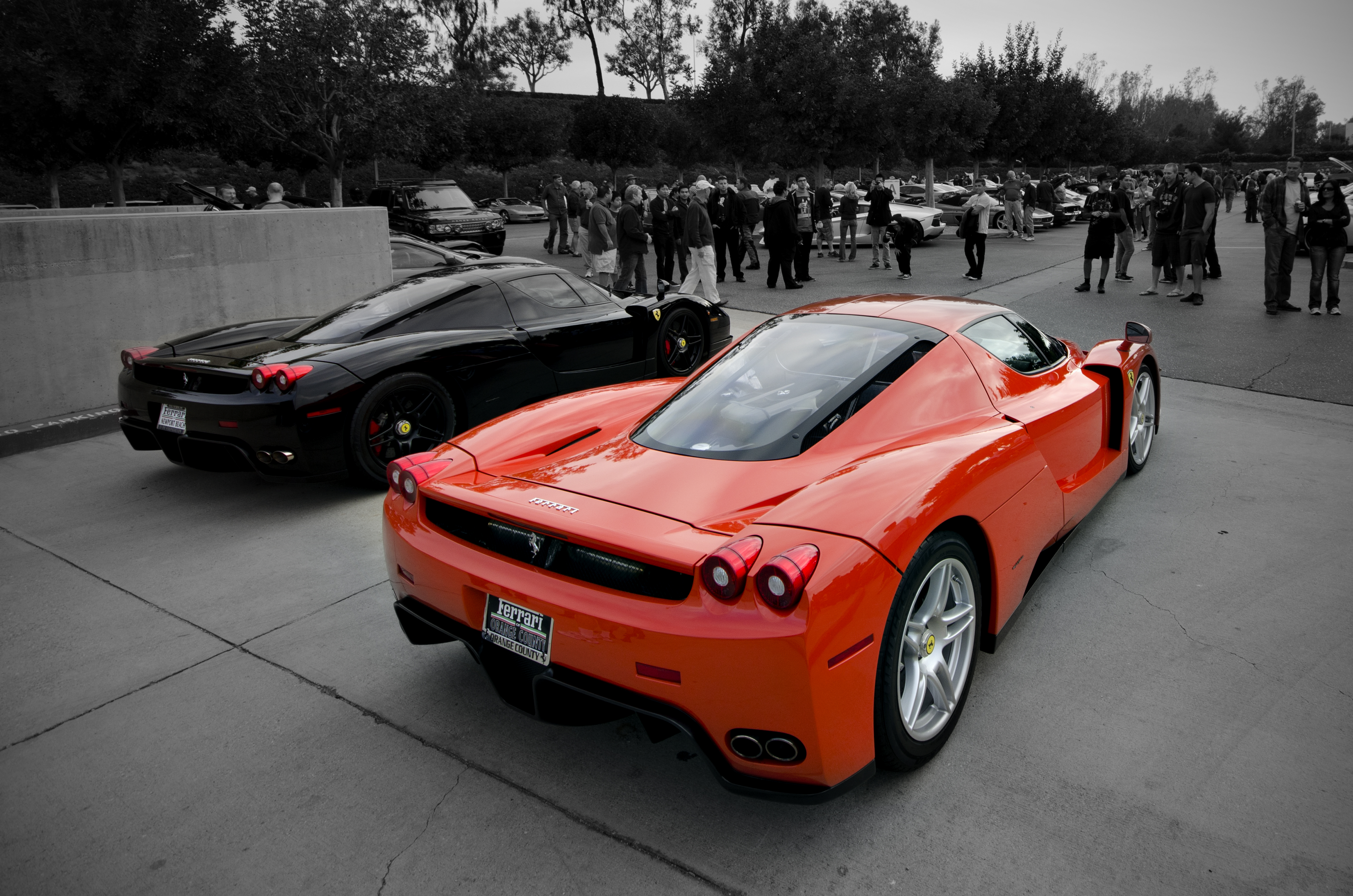 Another shot of the Enzos